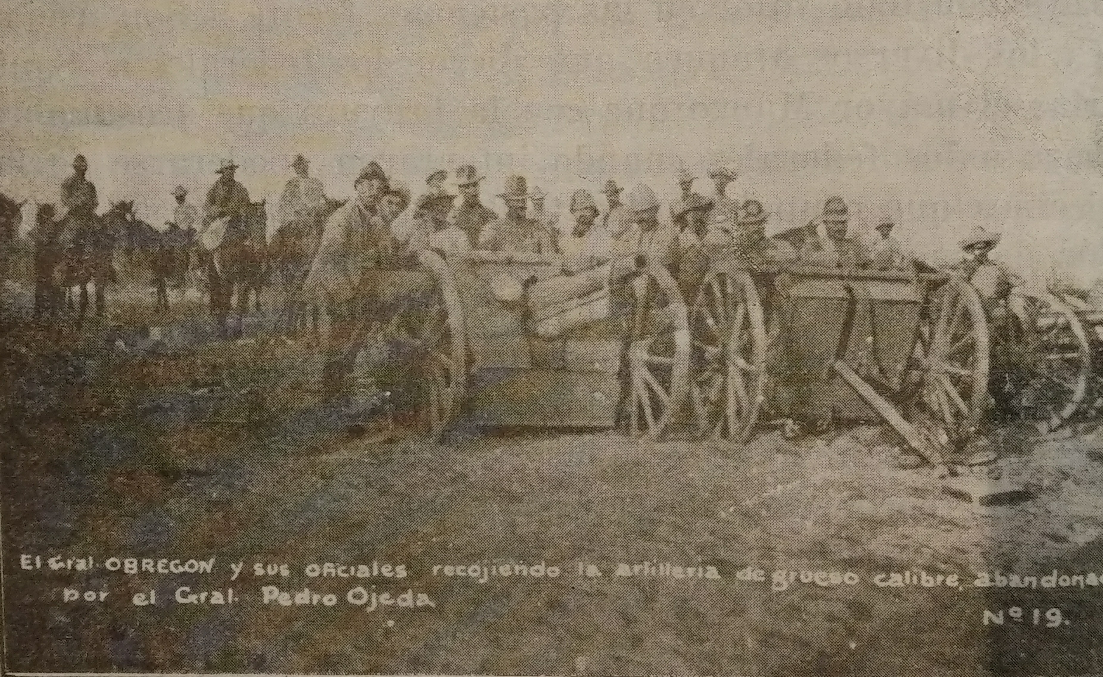 General Alvaro Obregon and his soldiers picking up armament leaved behind by general Pedro Ojeda, from the battle of Santa María in the state of Sonora during the Mexican revolution.